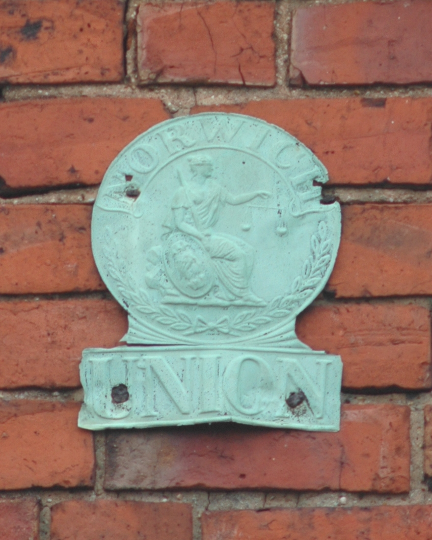 Norwich Union fire insurance mark on Wesleyan chapel, Hugglescote, Leicestershire